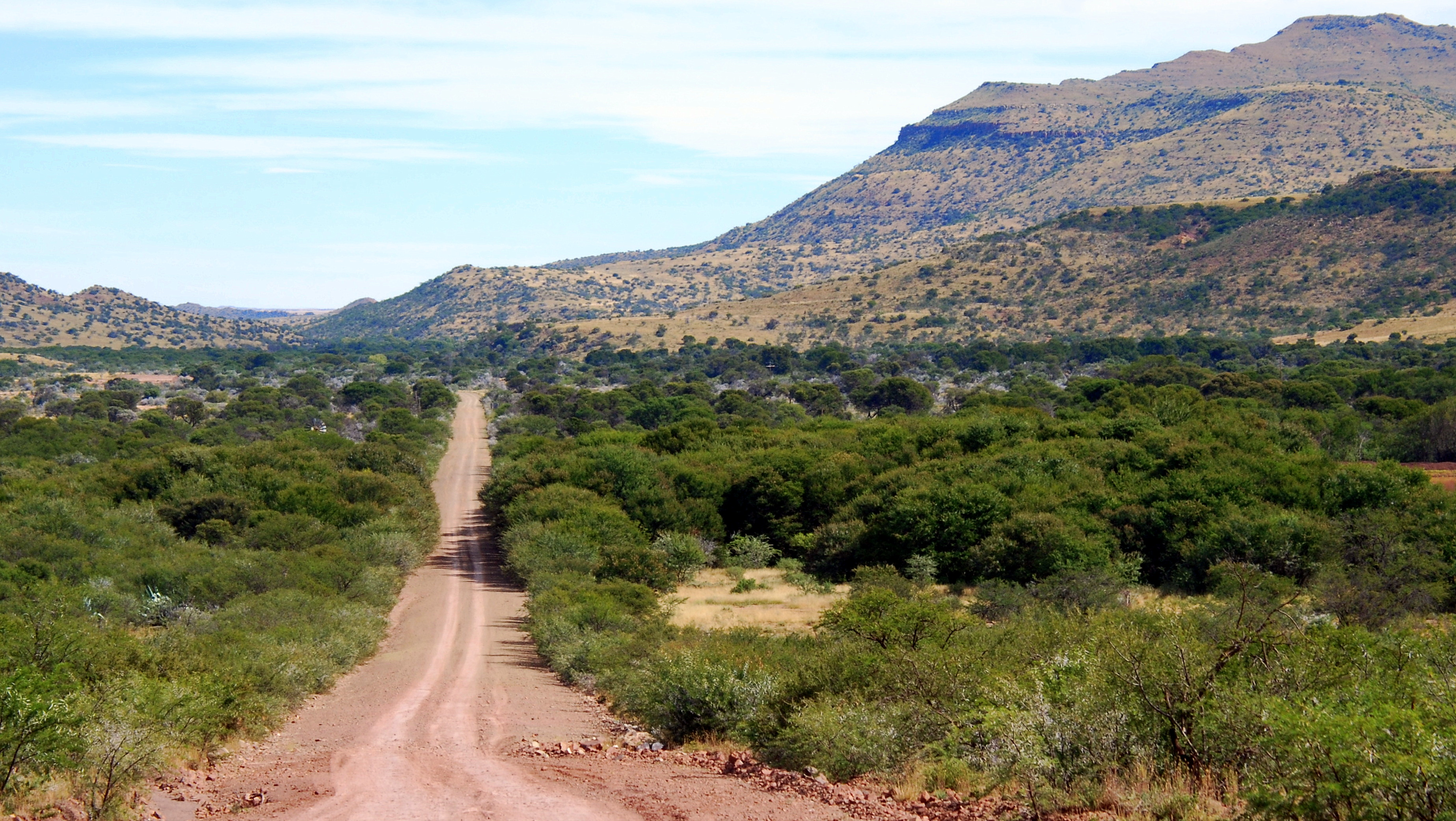 View towards the South